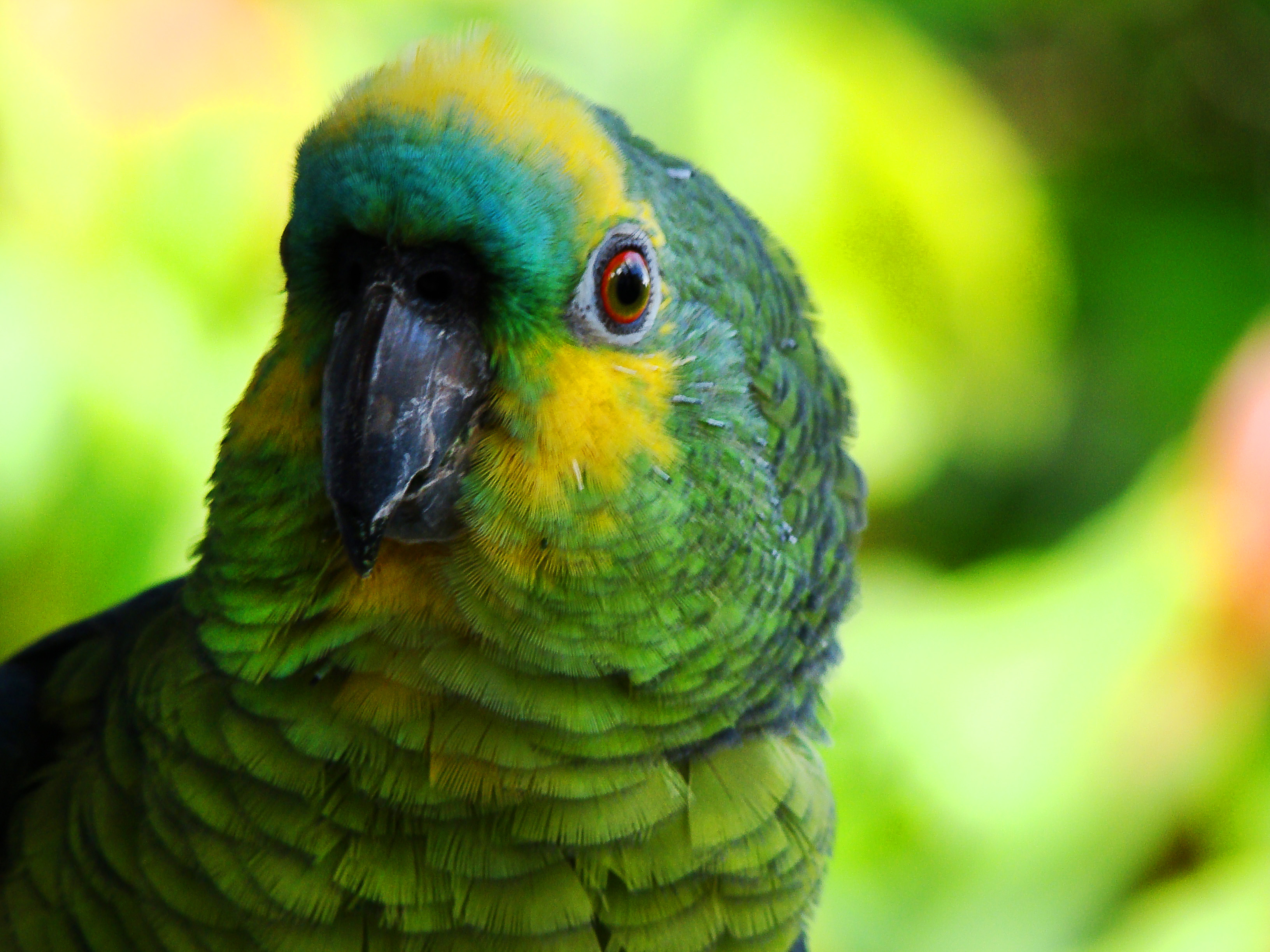 A Blue-fronted Amazon - upper body.